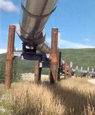 Pipeline transport-small image, seen from below